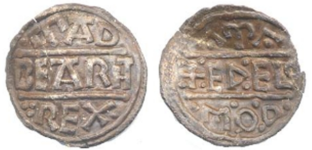 Coin of Eadberht Praen, King of Kent in 796-798, minted in Canterbury by Æthelmod, EMC number 2006.0238